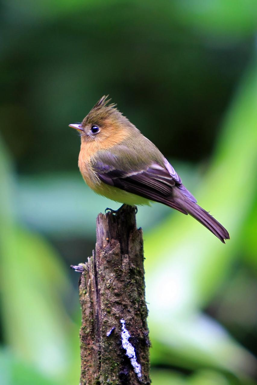 Mitrephanes phaeocercus — Northern Tufted Flycatcher. Perching on a broken tree trunk in the Monteverde Cloud Forest Reserve, Cordillera de Tilarán, Puntarenas Province, Costa Rica.